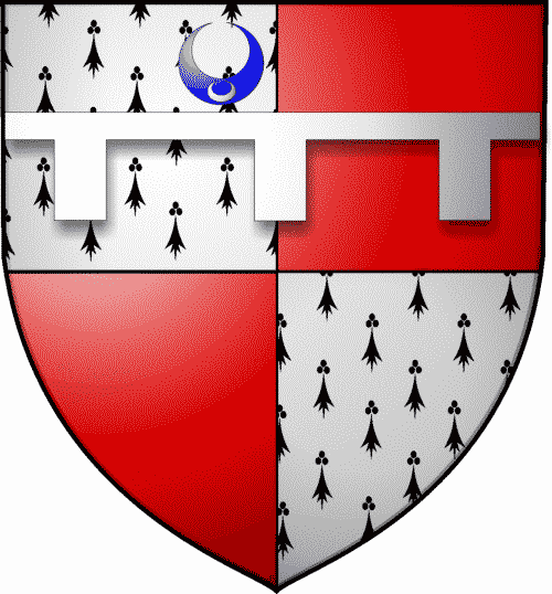 Stanhope, viscount of Petersham CoA